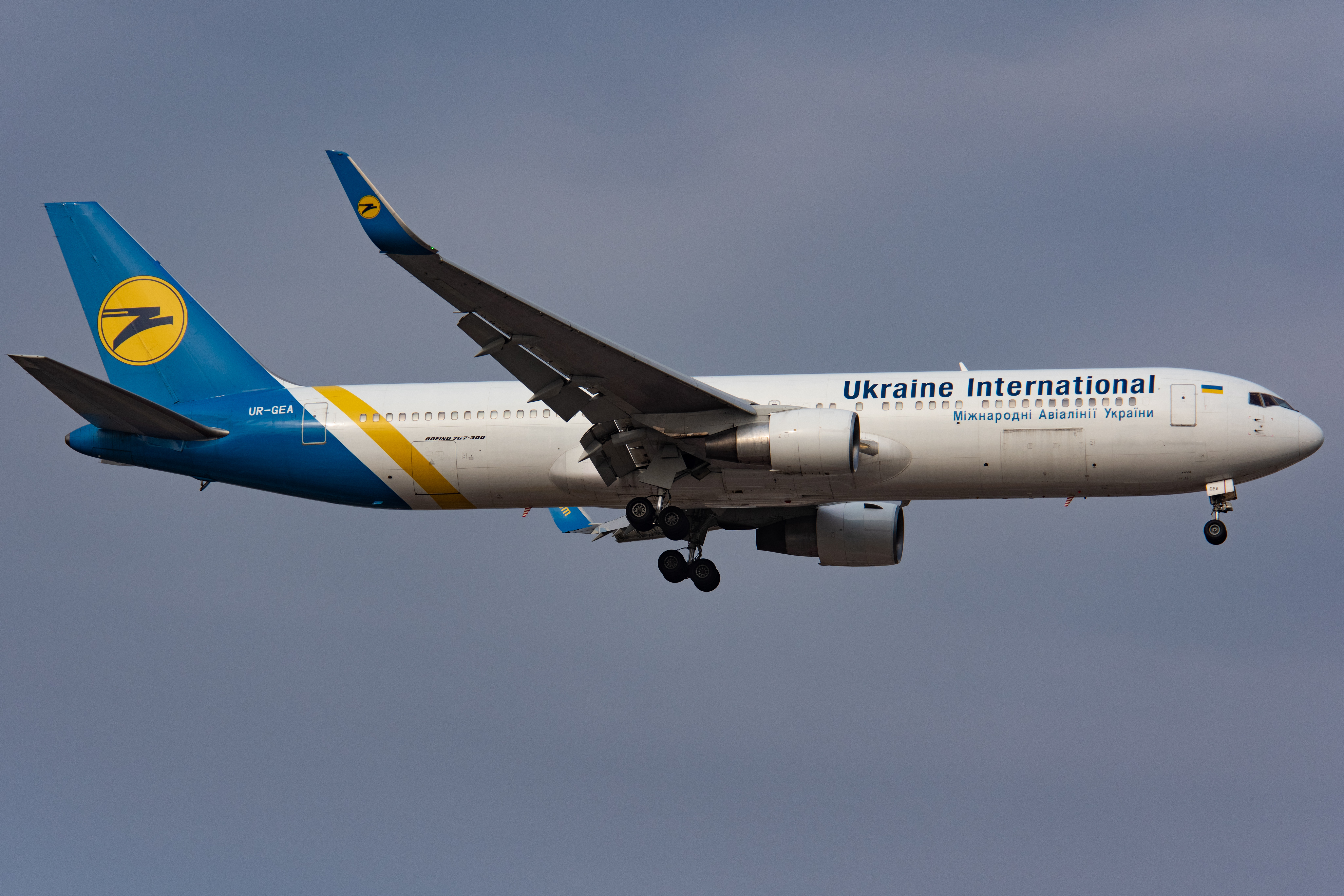 AUI2601 from Kiev... unexpected visitor upon the opening of 36R. Ukraine flies An-124s to many cities of China EXCEPT Beijing...